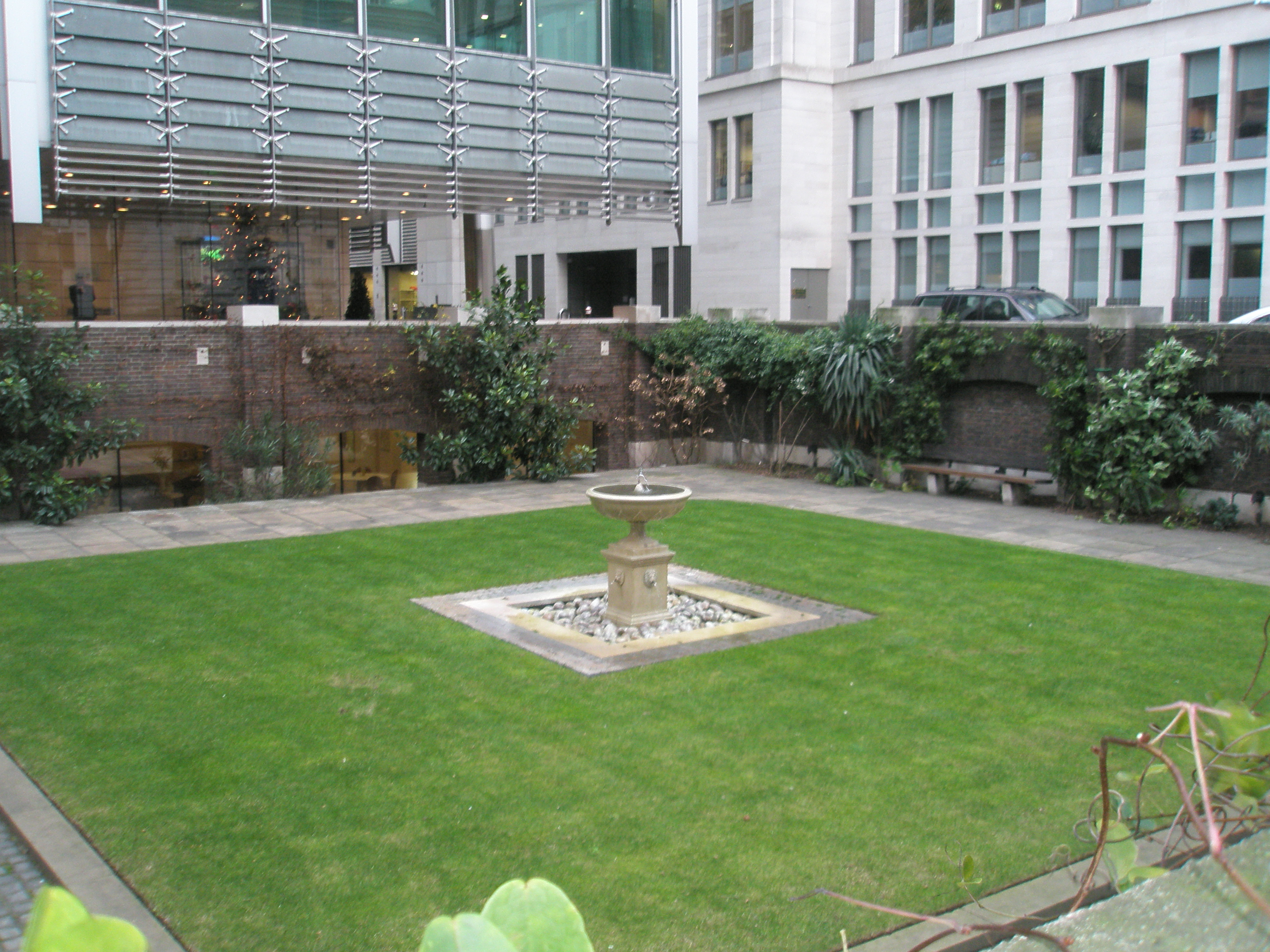 Churchyard of St John Zachary